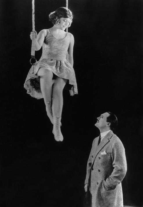 Still of Vilma Bánky and Édouard-Émile Violet in Le Roi du cirque (1925)